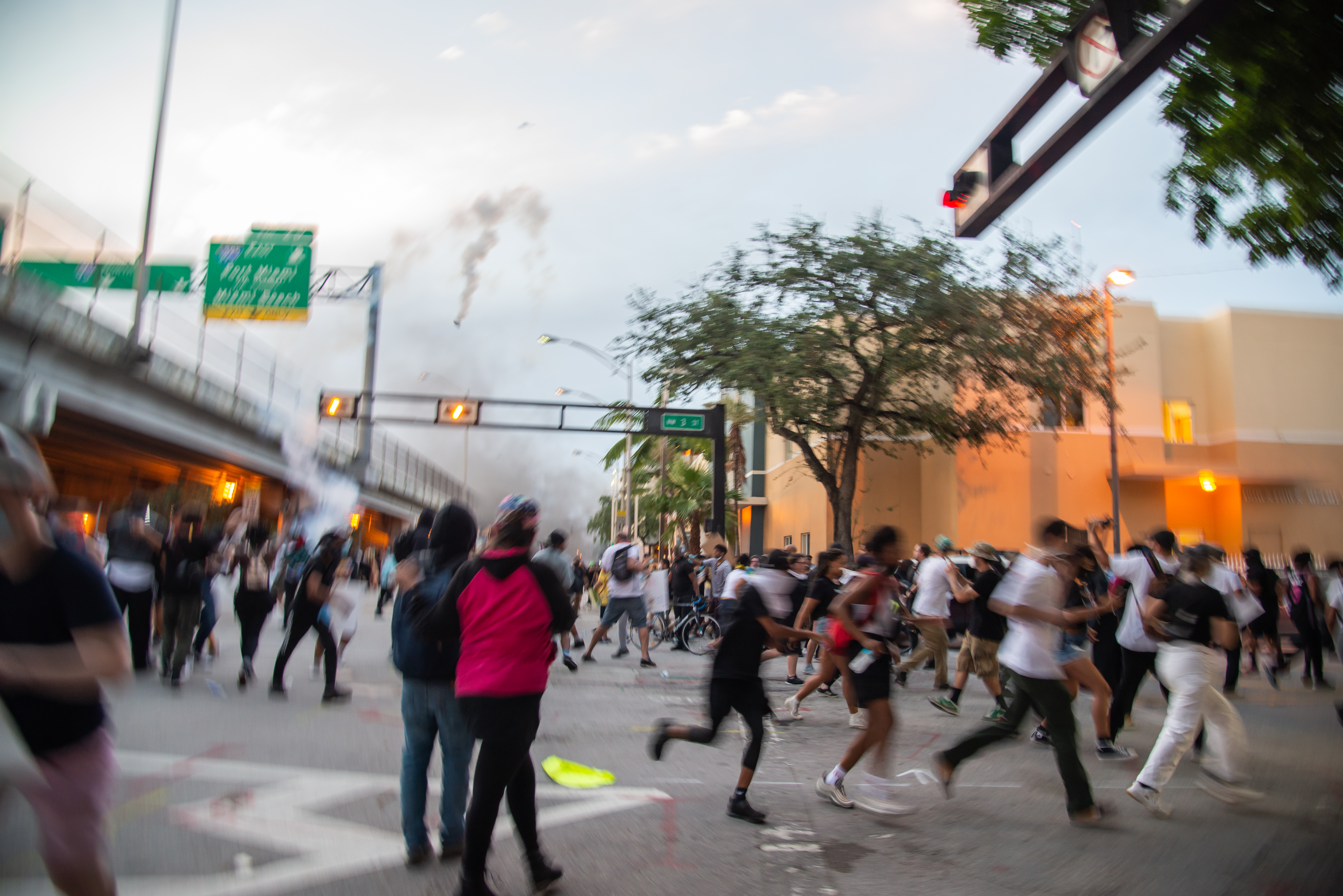 Free commercial use with attribution (Mike Shaheen) Let me know if you use them